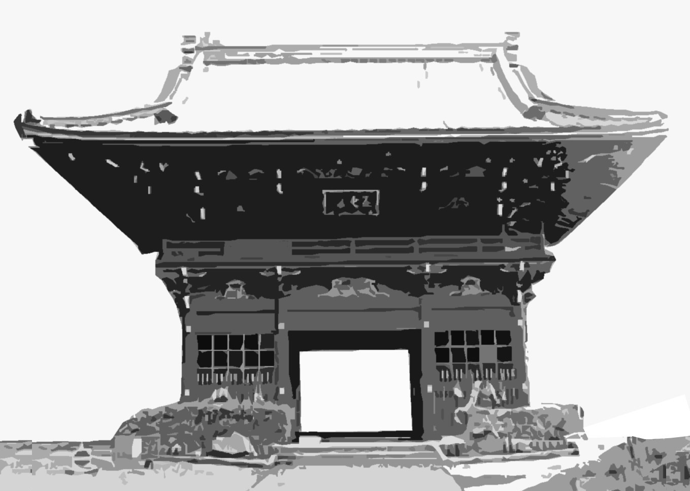 Scetch of Temple-Gate of Gyogan-ji at Isumi, Japan